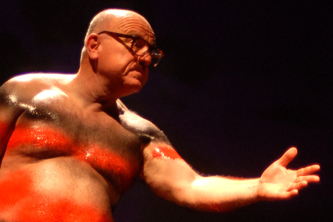 Leo Bassi on 17 May 2008 at Orpheum Vienna (Austria), performing "Revelación"